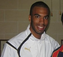 Picture of Sylvano Comvalius.